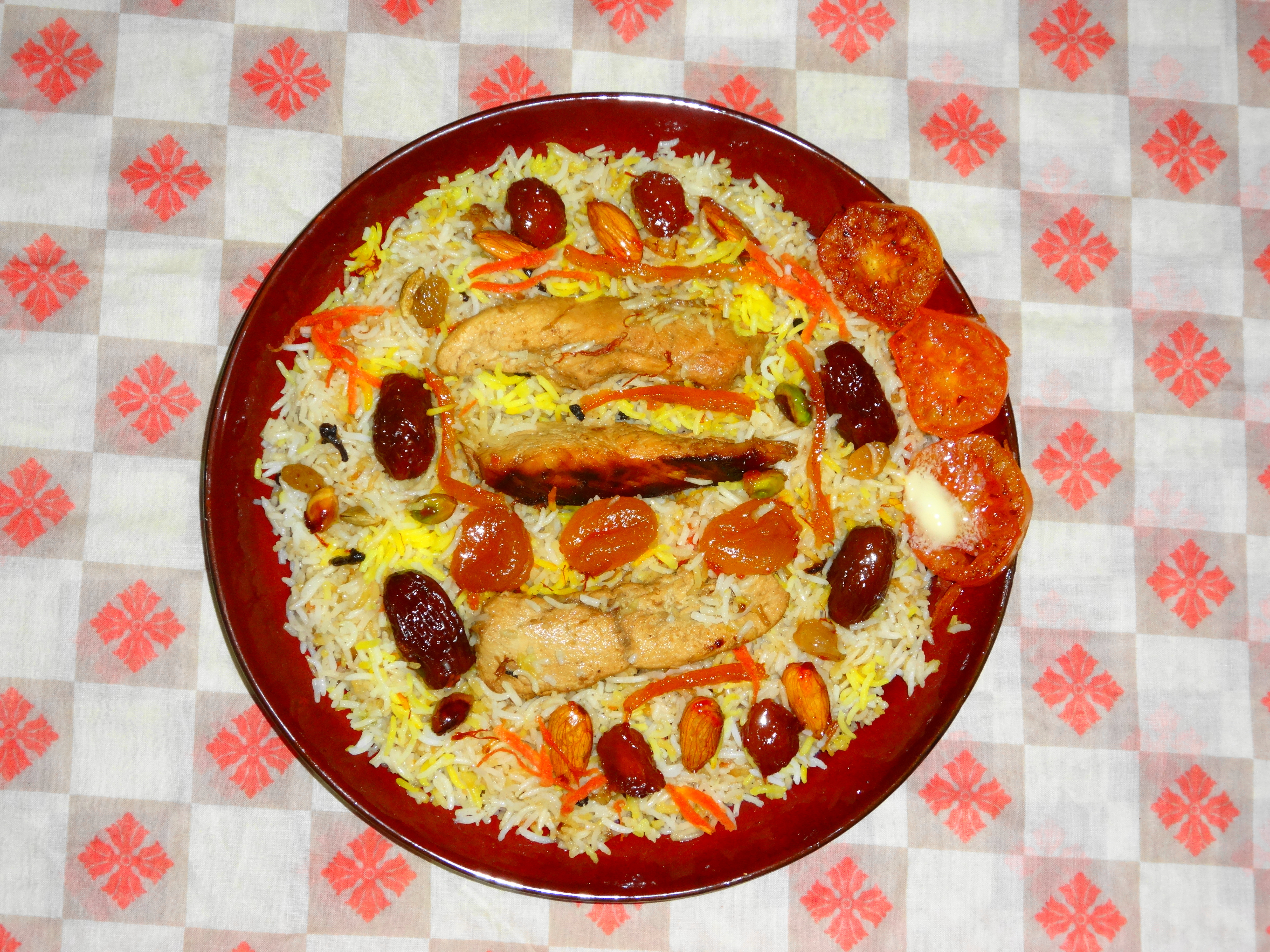 Shirin Polo, Shirin Polow, Shireen Pulao, Shirin Plov, شیریں پلاؤ